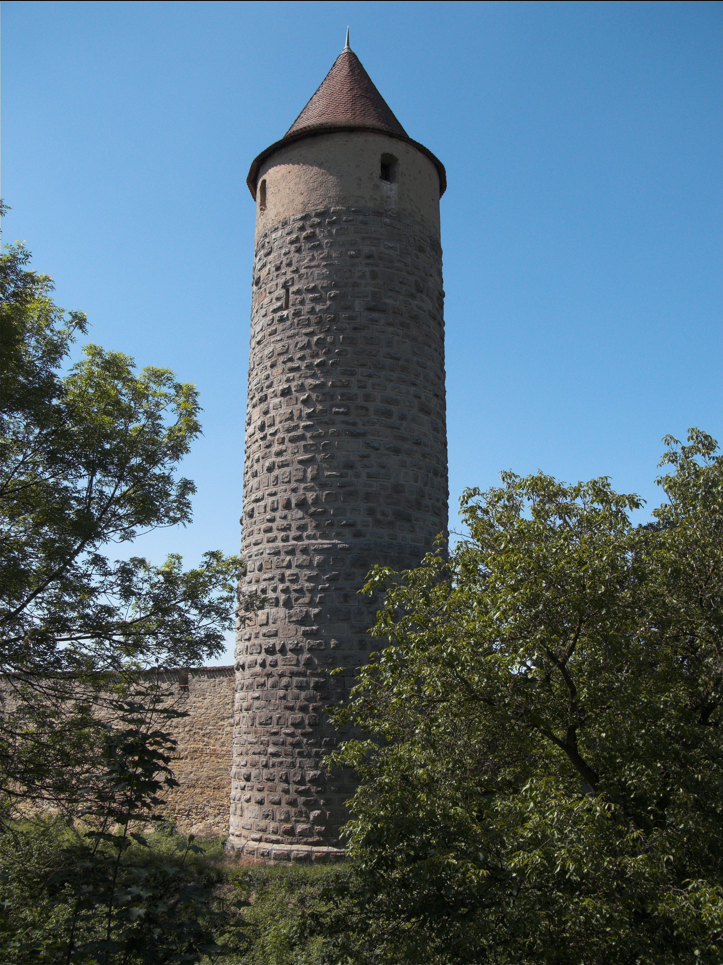 Eulenturm In Iphofen